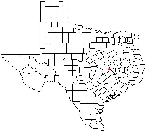 Gause, Texas location map; created with the GIMP. Made by User:Acntx.